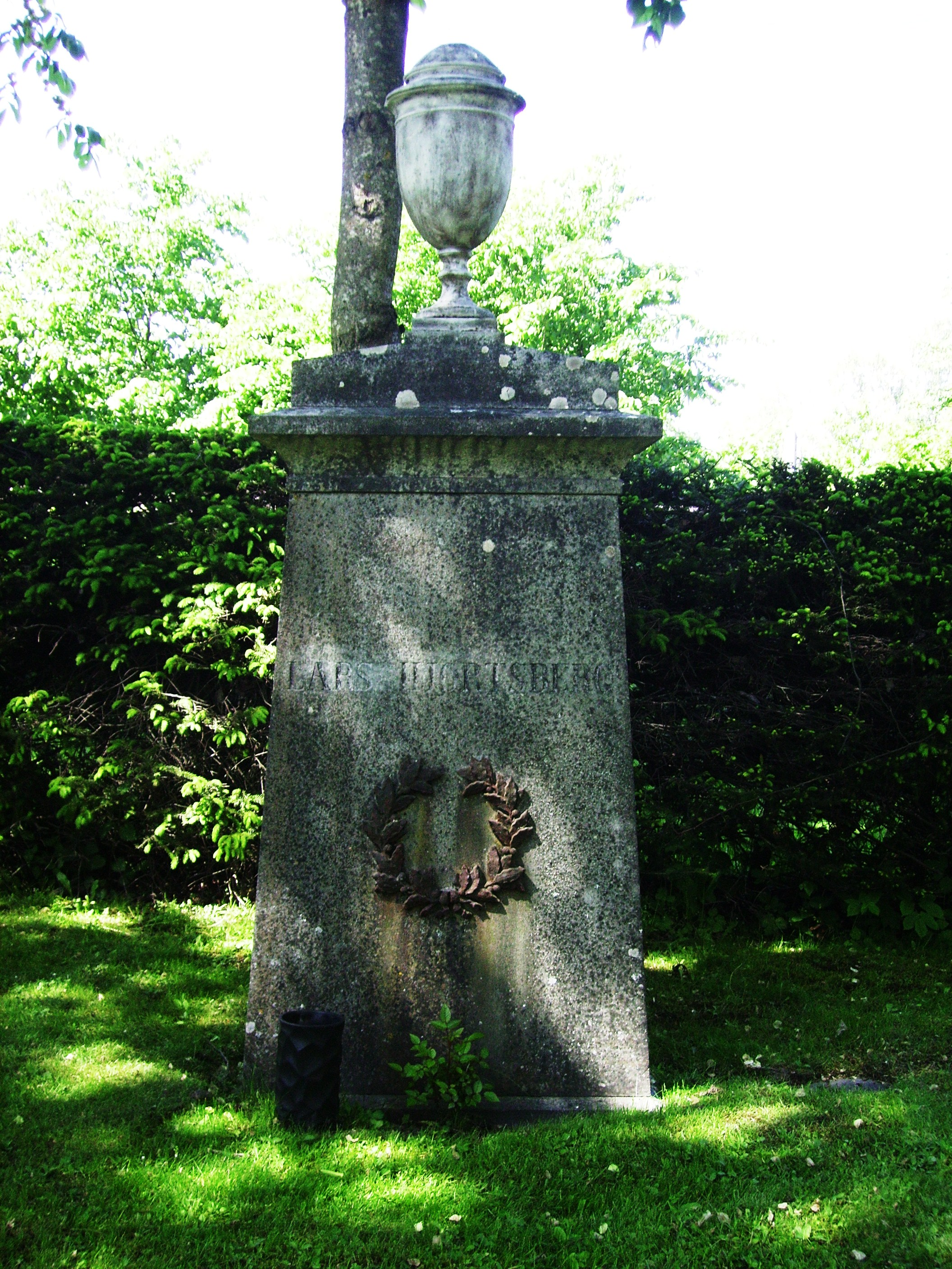 Picture of Lars Hjortsbergs grave in Nyköping